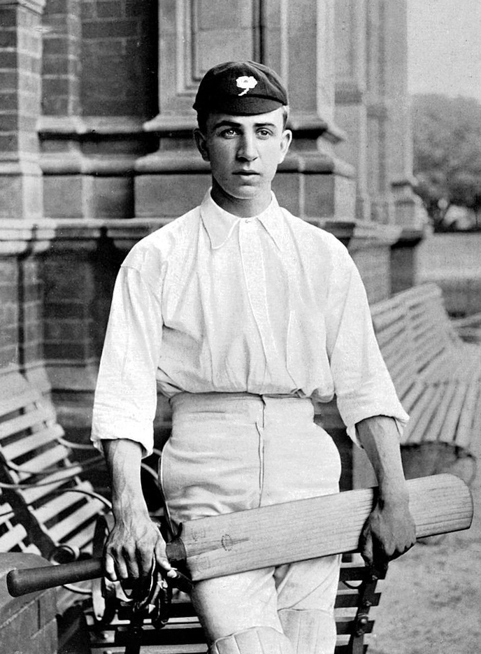 Sport, Cricket, Circa 1895, David Denton, Yorkshire, (1894-1920) and England, (1905-1910)